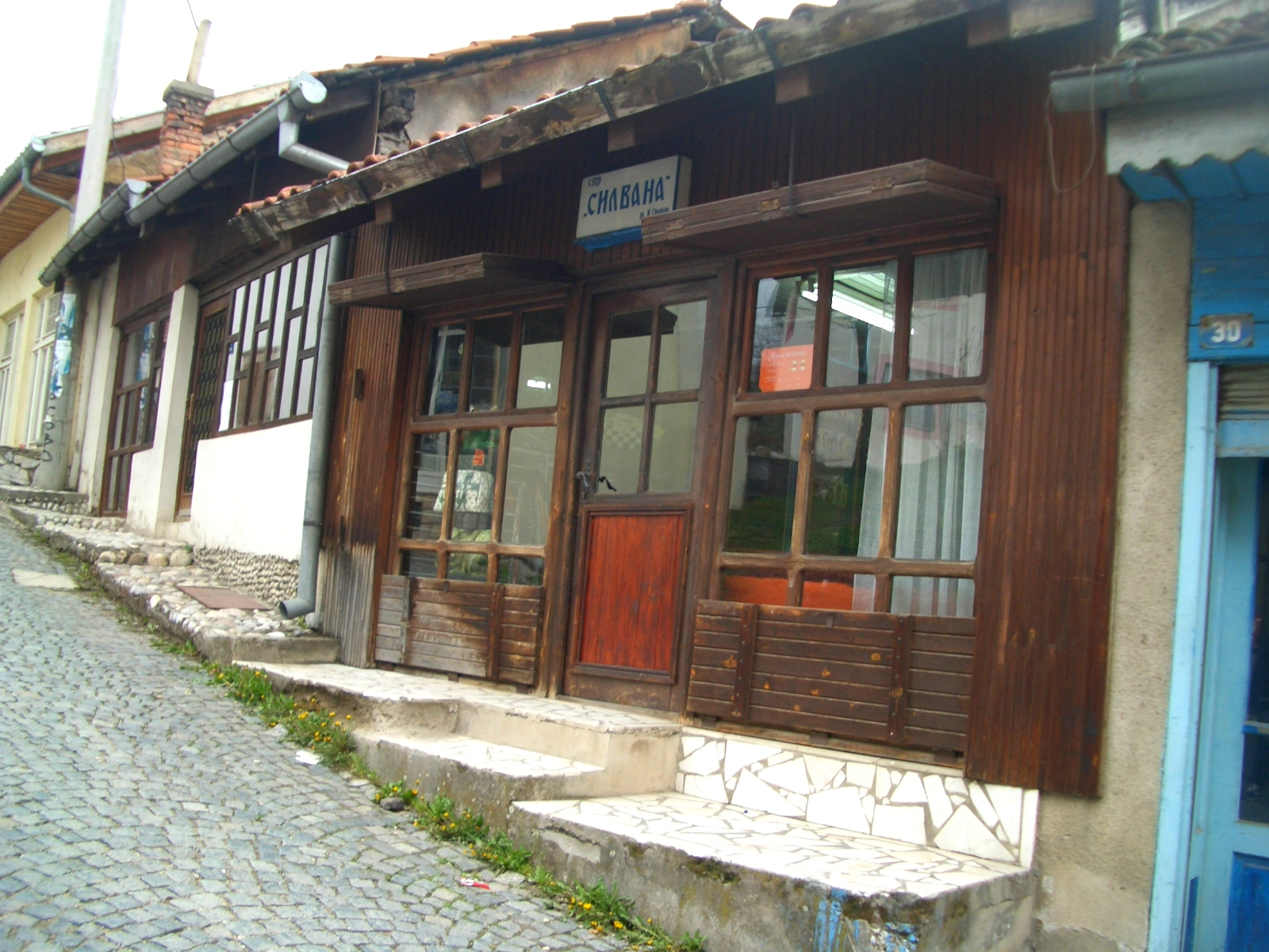 This image was uploaded as part of Trace of Soul 2016.